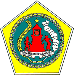 Coat of arms of Gianyar Regency. Indonesia